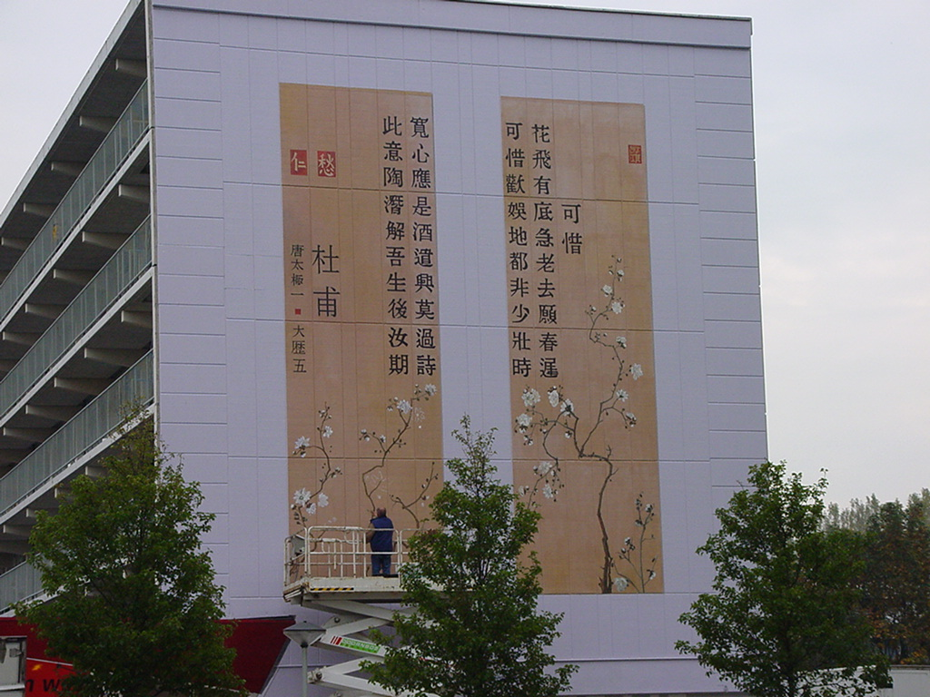 Wallpoem in de city of Leiden in the Netherlands.